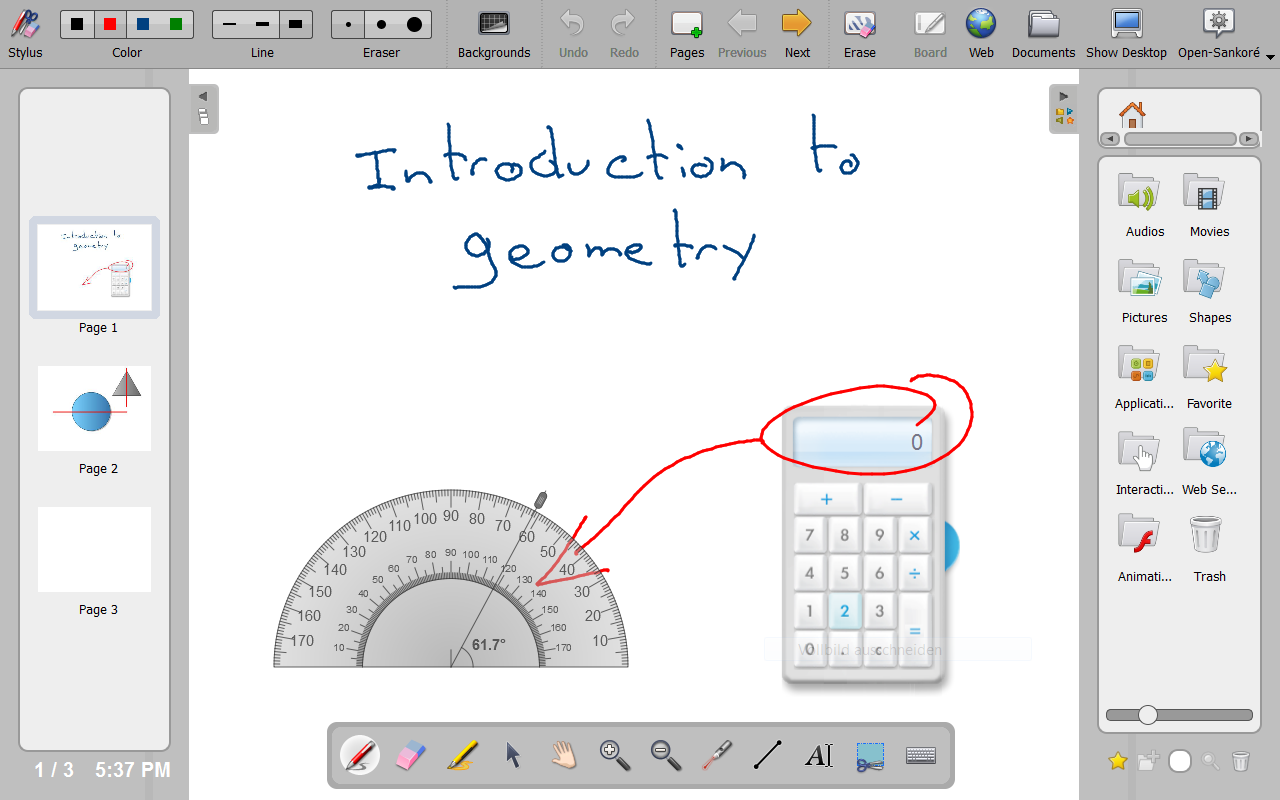 This is a screenshot of the main window of the Open-Sankoré software in it's 1.4 version